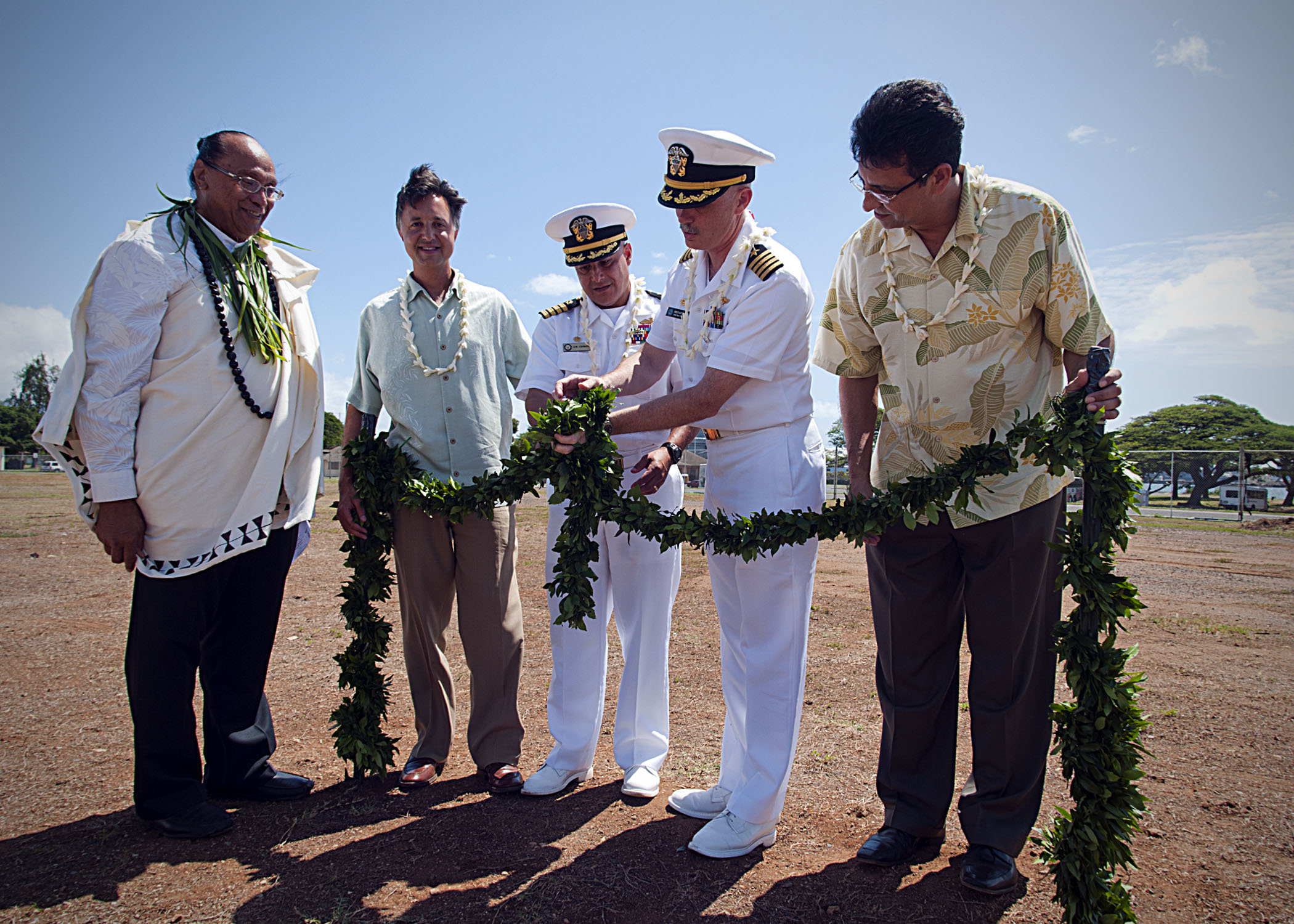 FORD ISLAND, Hawaii (Oct. 5, 2010) Capt. John Coronado, commander of Naval Facilities Engineering Command (NAVFAC) Hawaii, along with Capt. Rick Kitchens, commander of Joint Base Pearl Harbor-Hickam, untie the Maile Lei at the Ford Island Child Development Center groundbreaking ceremony. The CDC is scheduled to be completed by Jan. 2012. (U.S. Navy photo by Mass Communication Specialist 2nd Class Eric J. Cutright/Released)